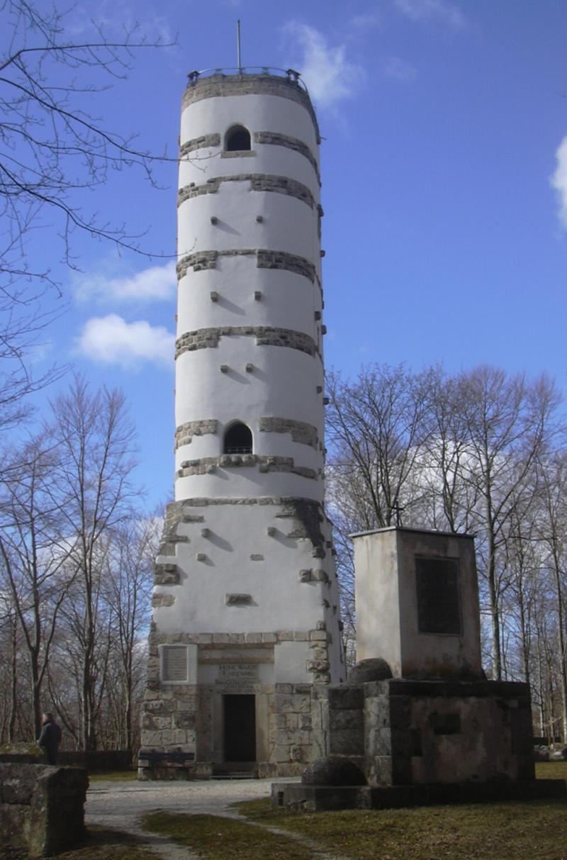 View tower on the “Hohe Warte”, a hill of the Swabian Jura, Germany